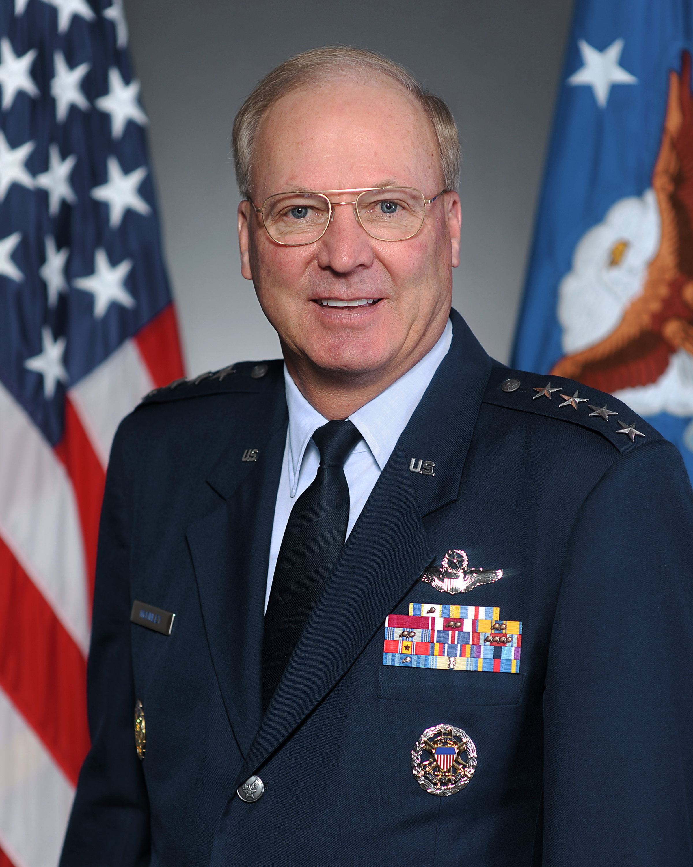 General Craig R. McKinley, USAF Chief, National Guard Bureau